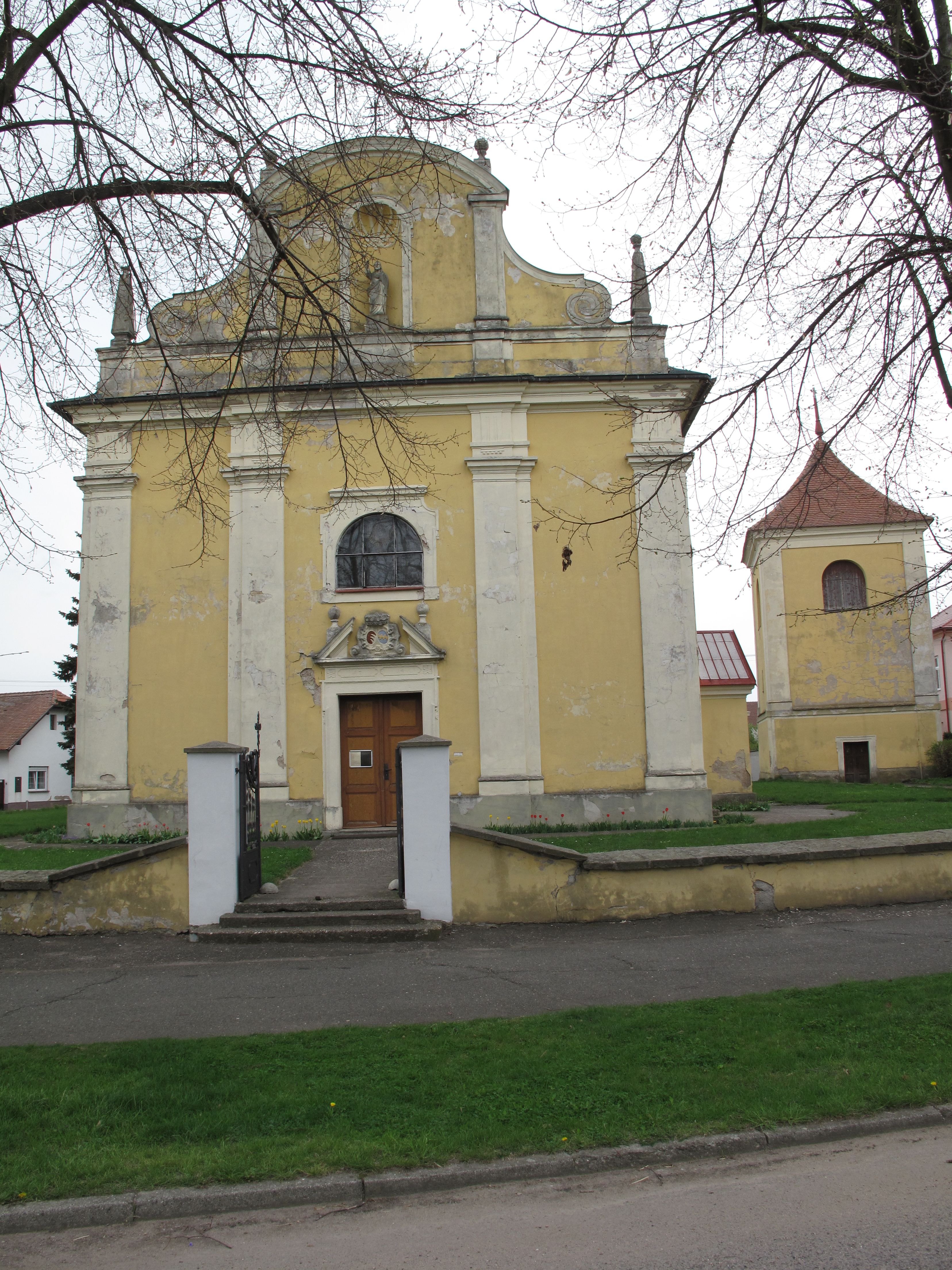 Church of Saint Bartholomew in Lovčice village, Hradec Králové District, Czech Republic.